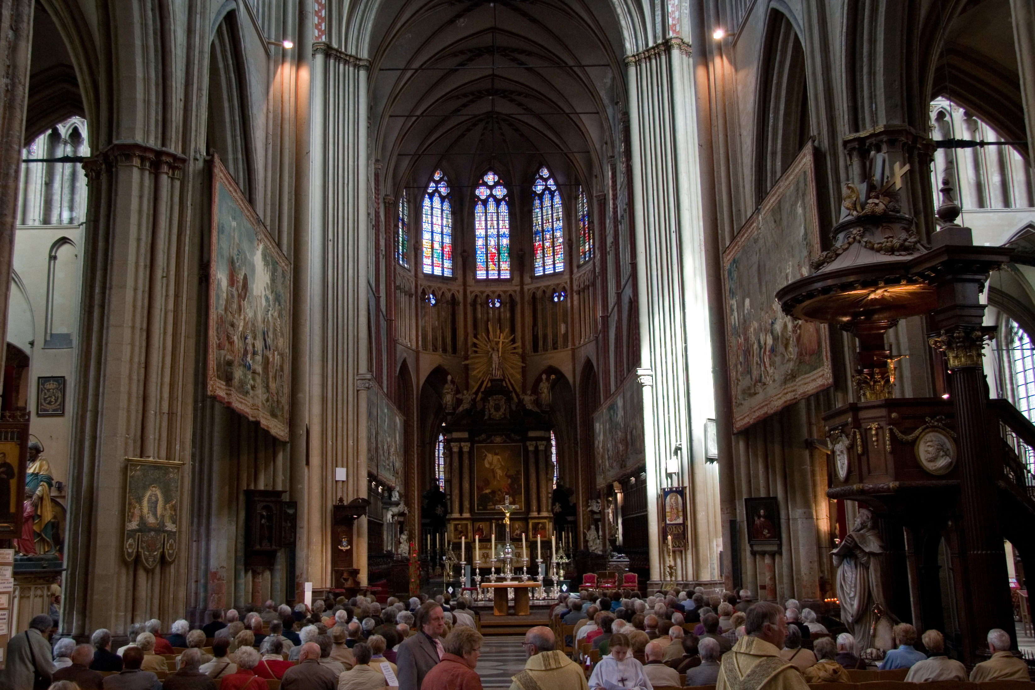 Sint-Salvator Cathedral in Bruges